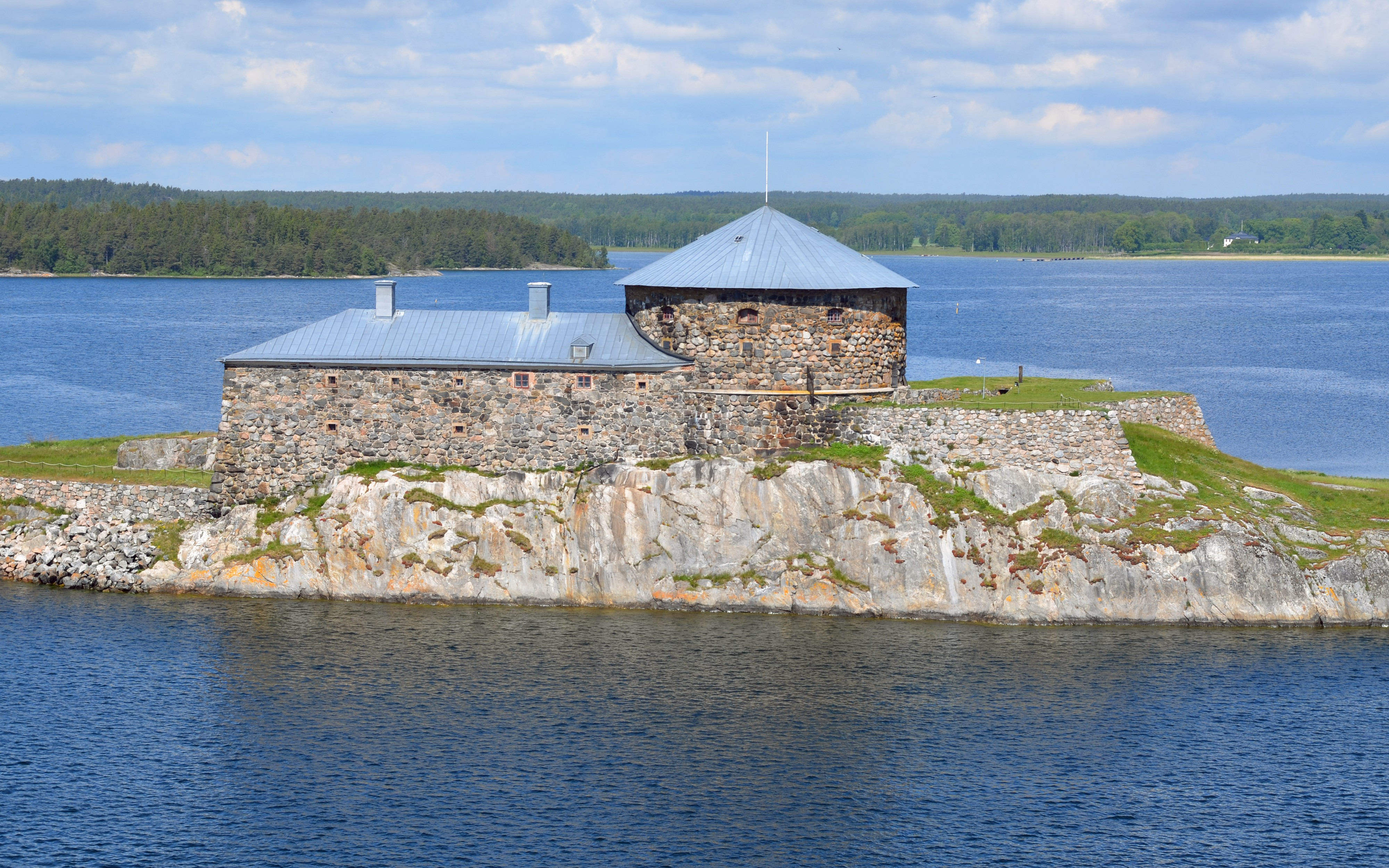 Dalarö Fortress in Stockholm archipelago.